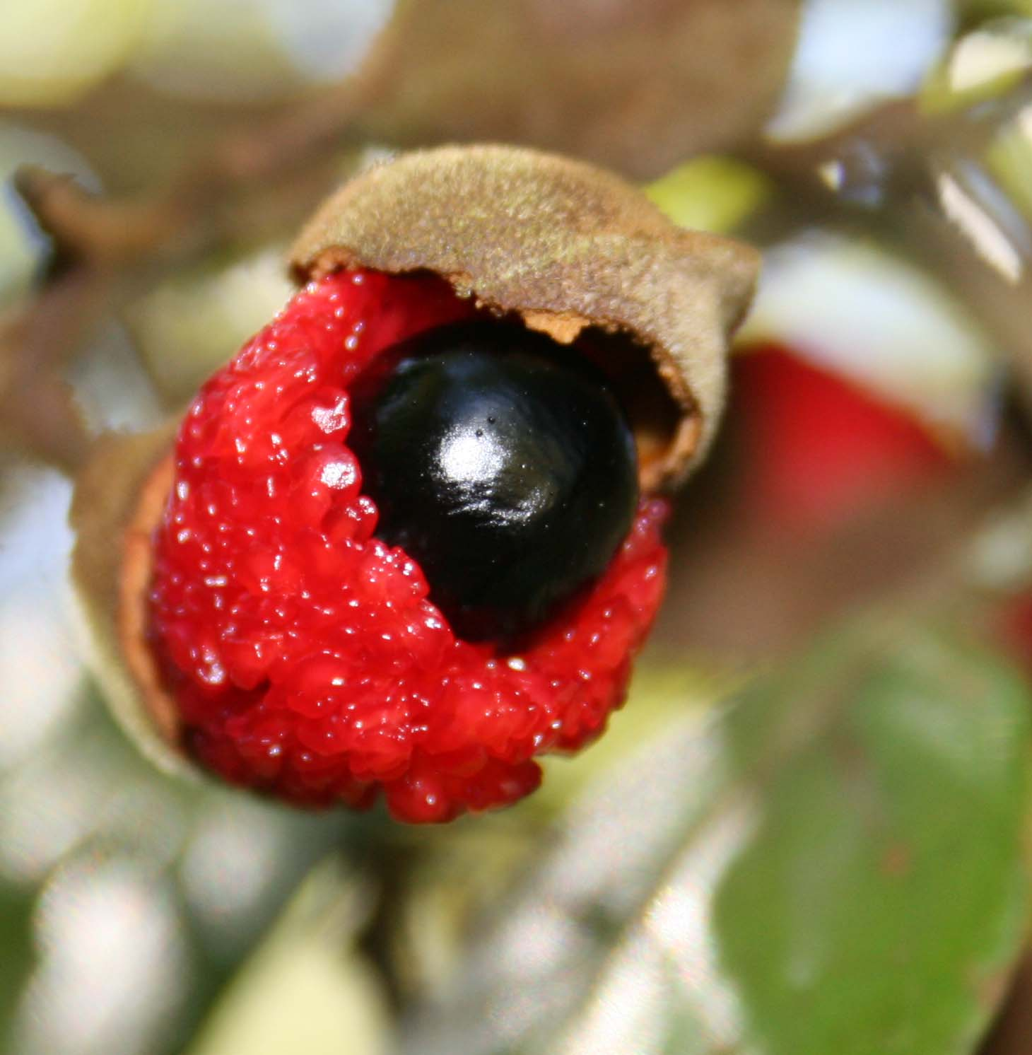 Fruit of the Titoki tree, Alectryon excelsus subsp. excelsus, endemic to New Zealand